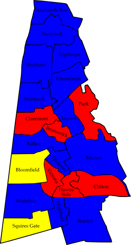 A map of the results of the 2007 Blackpool Council election. Colour legend by wards won: Conservative party Labour party Liberal Democrats